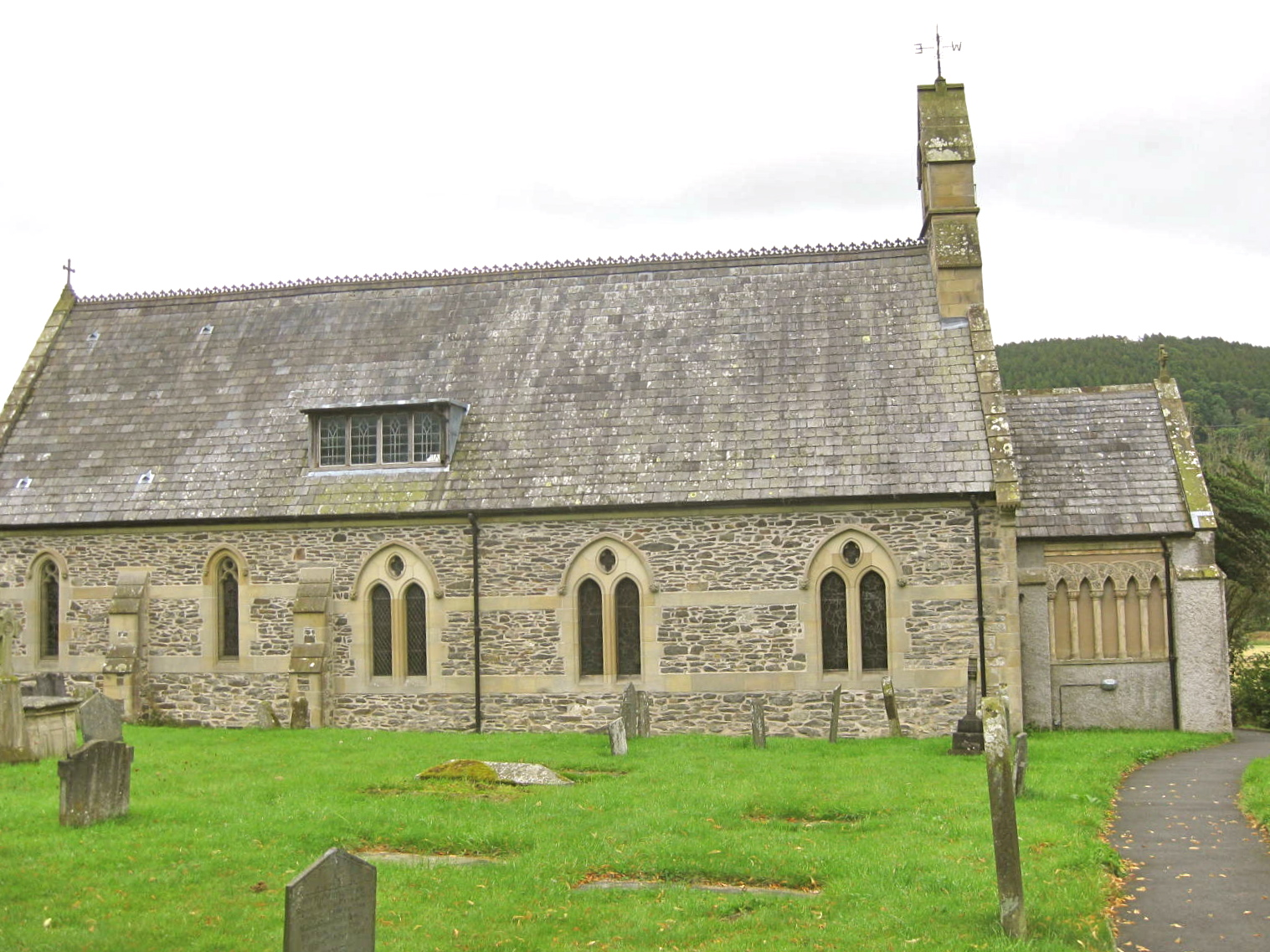 St Cedwyn, Llangedwyn. Church from N